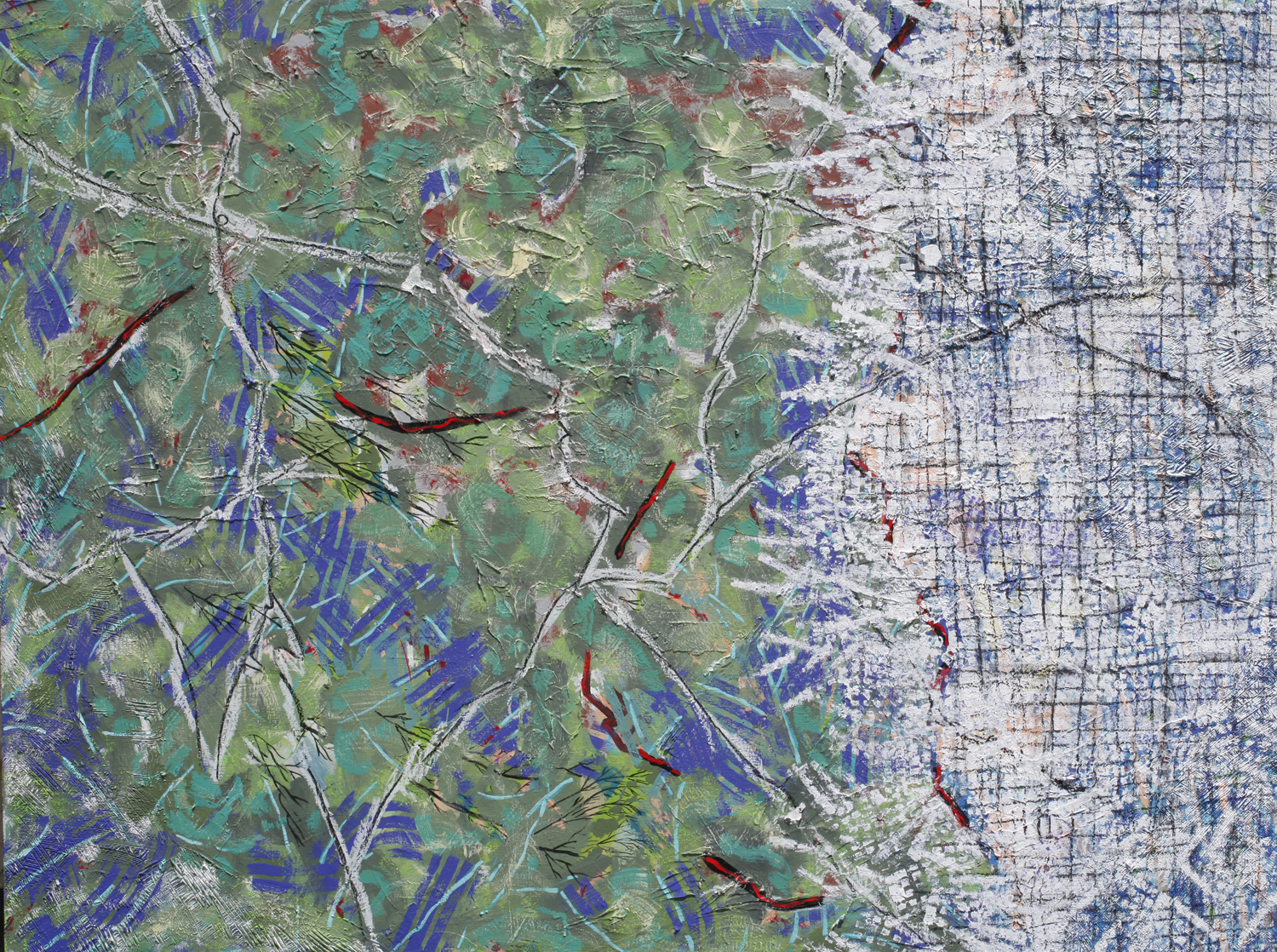 Shrinking, 2013, mixed media on plywood, 120X160